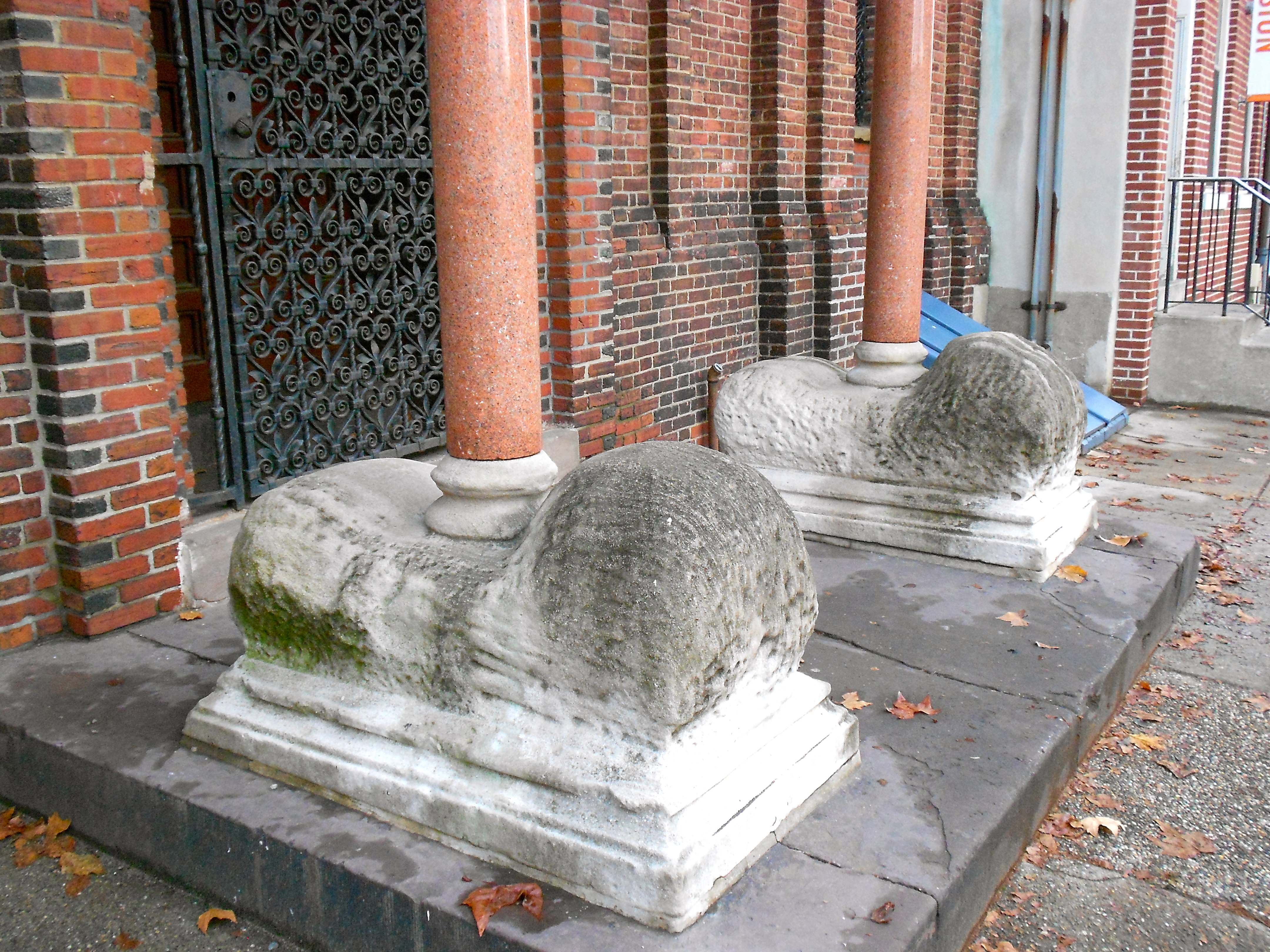 Unfinished ornament at the Samuel S. Fleisher Art Memorial in Philadelphia, PA, USA